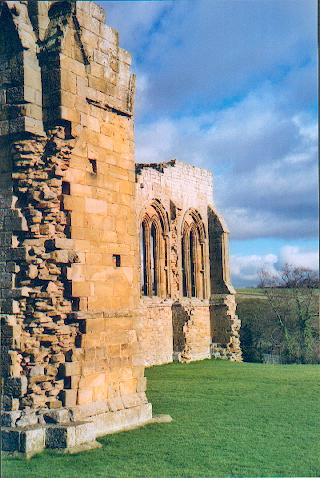 Egglestone Abbey, the ruins of this Premonstratensian abbey stand high above the River Tees near Barnard Castle